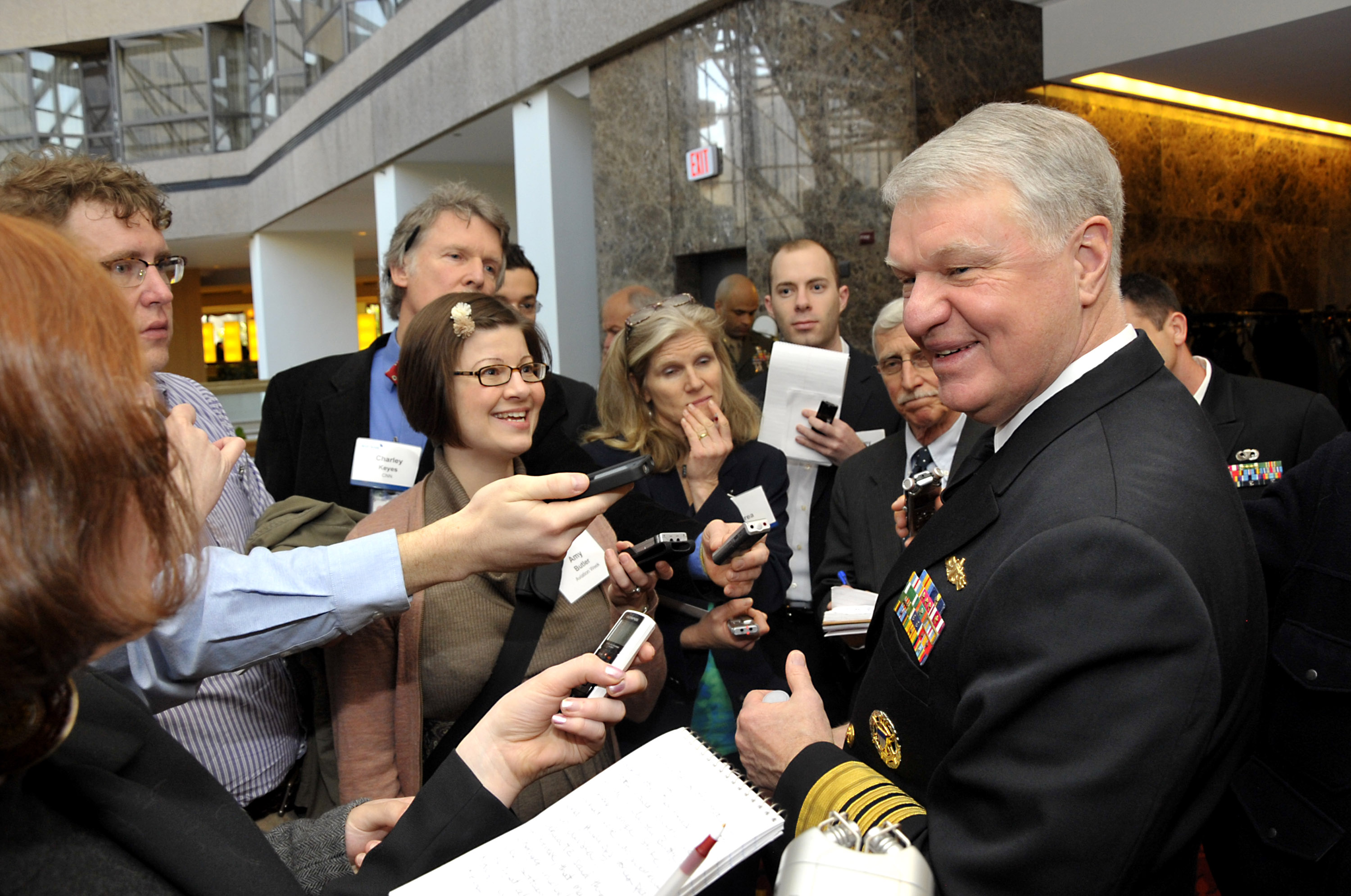 WASHINGTON (March 2, 2011) Chief of Naval Operations (CNO) Adm. Gary Roughead speaks with media after delivering remarks at the 2012 Defense Programs Conference. (U.S. Navy photos by Mass Communication Specialist 1st Class Tiffini Jones Vanderwyst/Released)